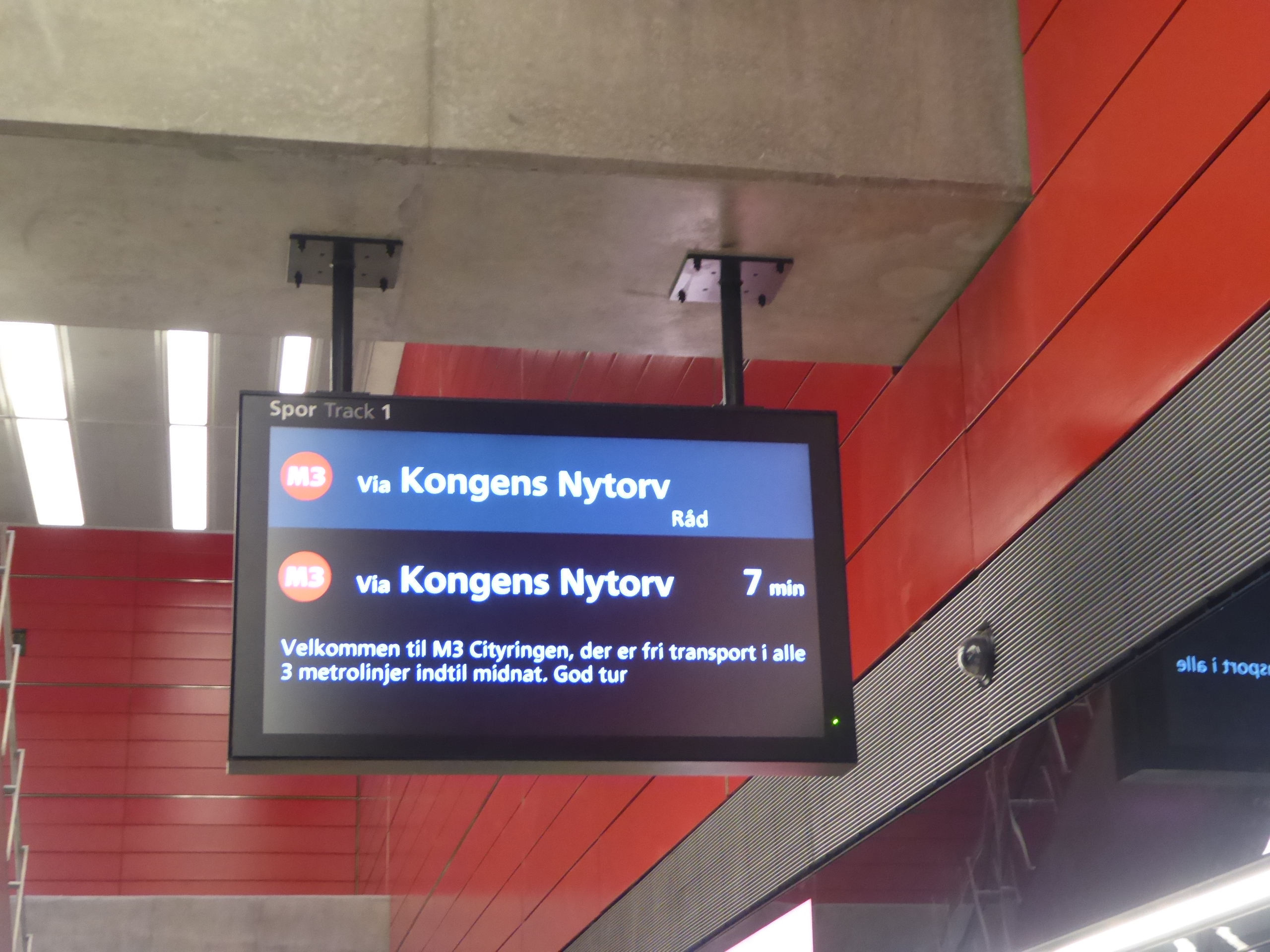 Information board at the metro station of Københavns Hovedbanegård (Copenhagen Central Station) on the opening day. The metro trains of Cityringen (City Circle Line) doesn't have any endpoints so instead five via stations are shown.